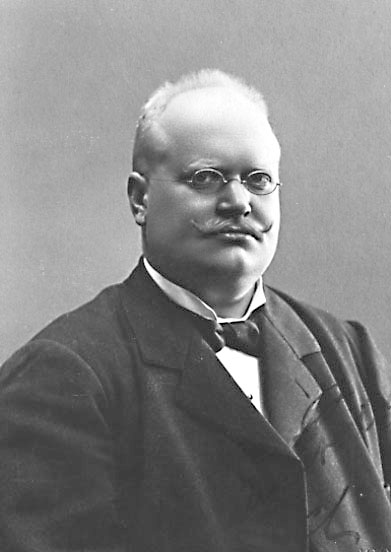 Herman Palm (1863-1942), Swedish clergyman, editor and song writer.